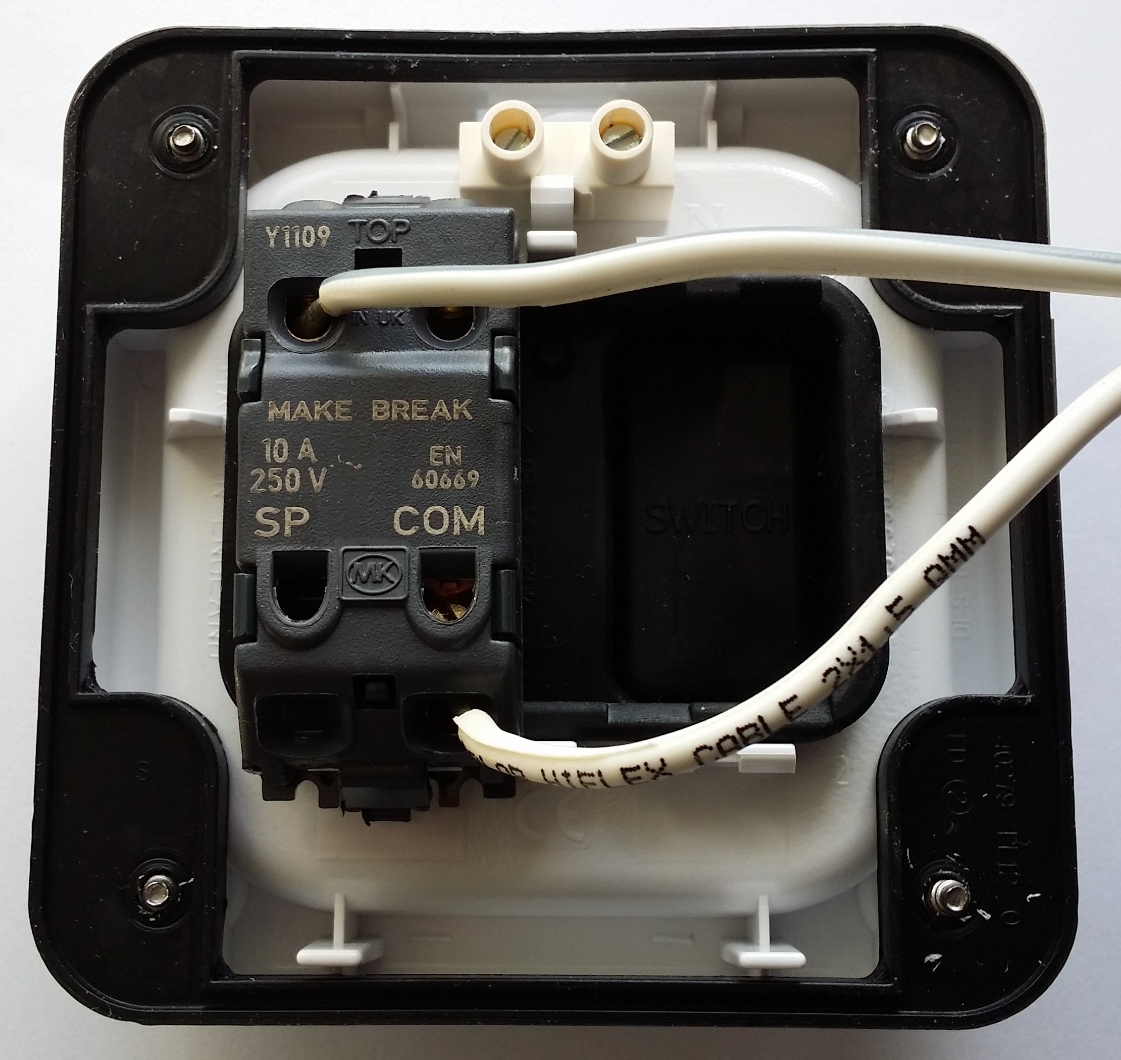 Commercially Available Push Switch - Wired up as a Push to Make Switch (for example as a doorbell switch)